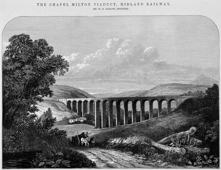 A view of Chapel Milton Viaduct from The Engineer.